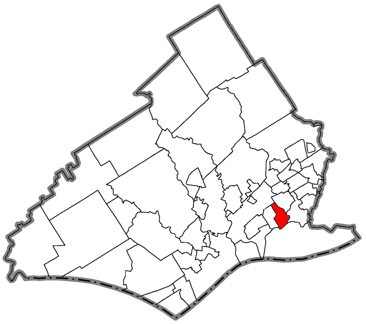 Showing the location within Delaware County, Pennsylvania.